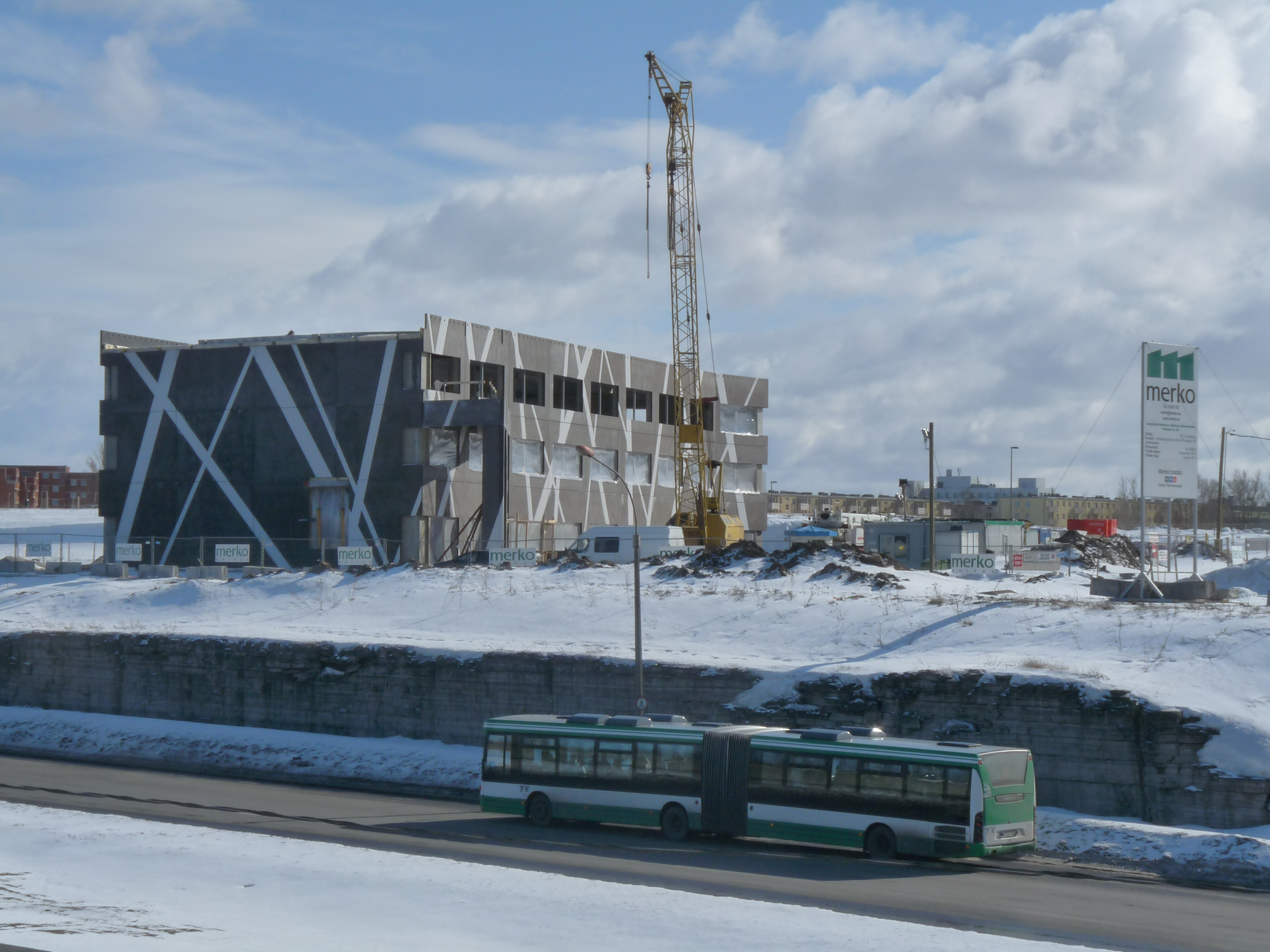 Construction of Lasnamäe administrative office